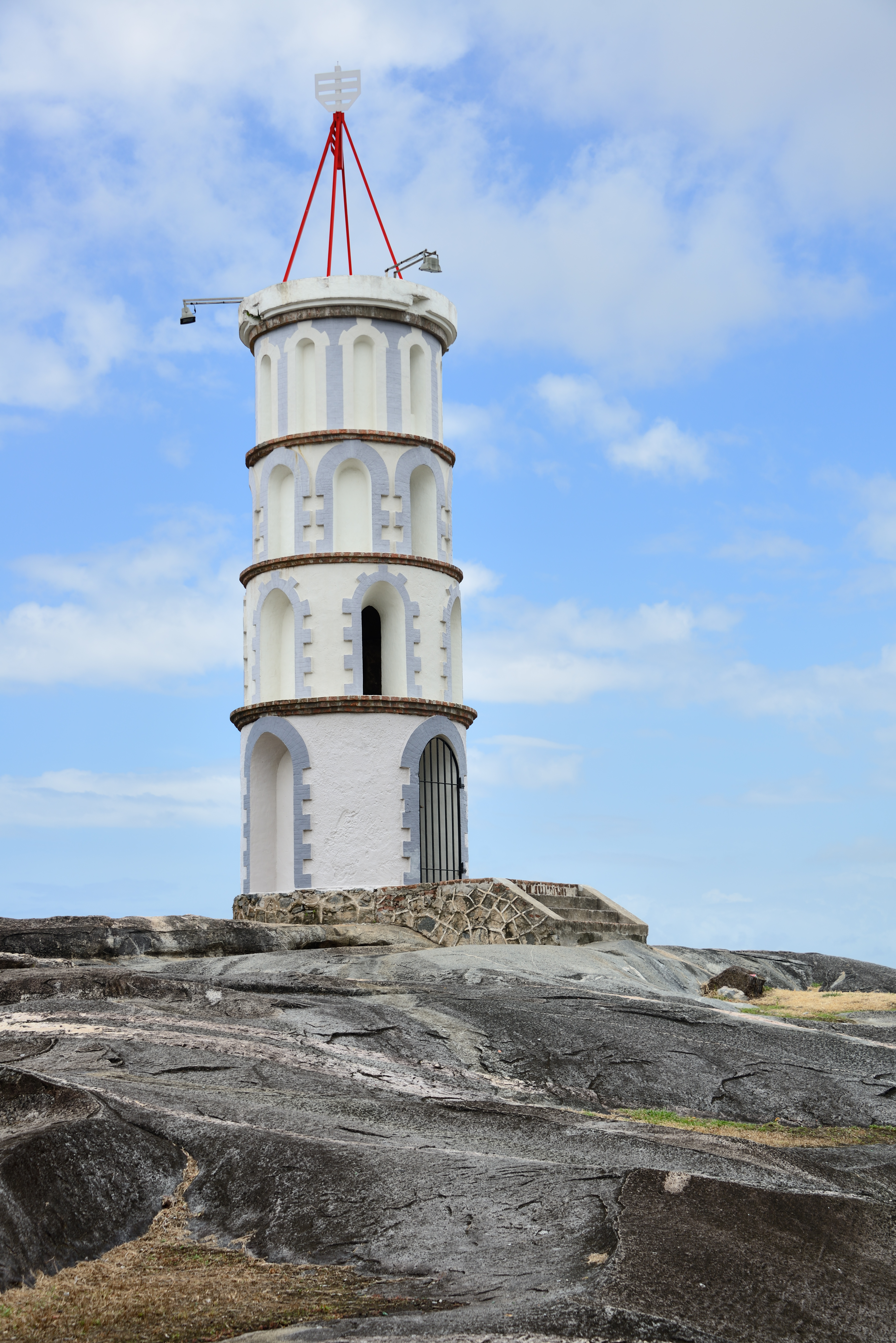 Tour Dreyfus at Pointe des Roches in Kourou, French Guiana.